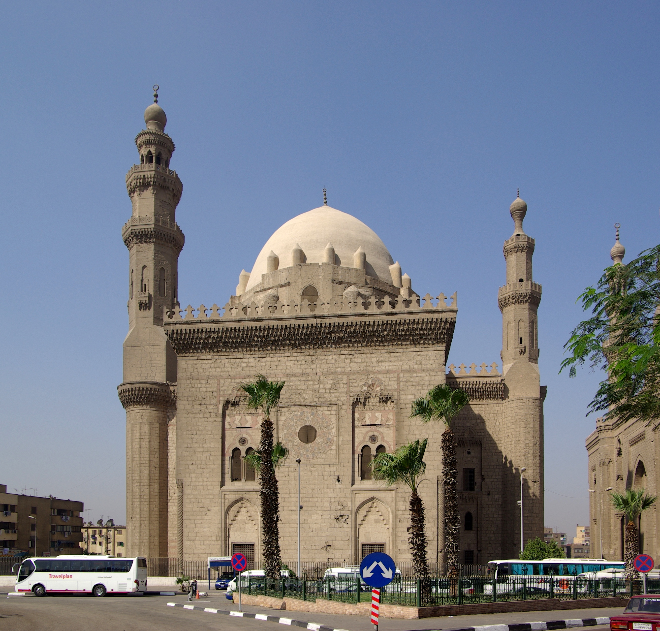 Cairo (Egypt), Mosque-Madrassa of Sultan Hassan